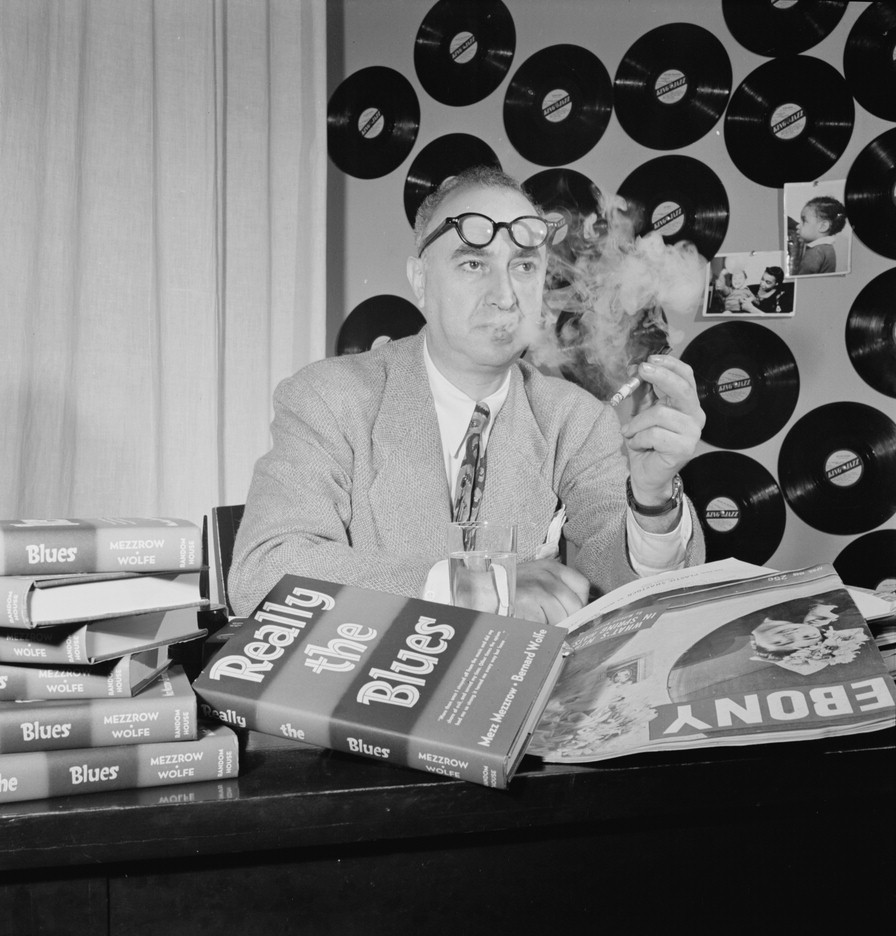 Mezz Mezzrow in his office, New York City, 1946. Mezzrow has multiple copies of his autobiography "Really the Blues". Photograph by William P. Gottlieb